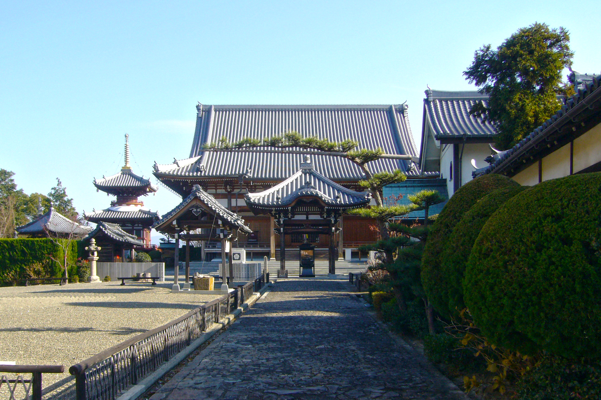 Chokei-ji in Sennan, Osaka prefecture, Japan